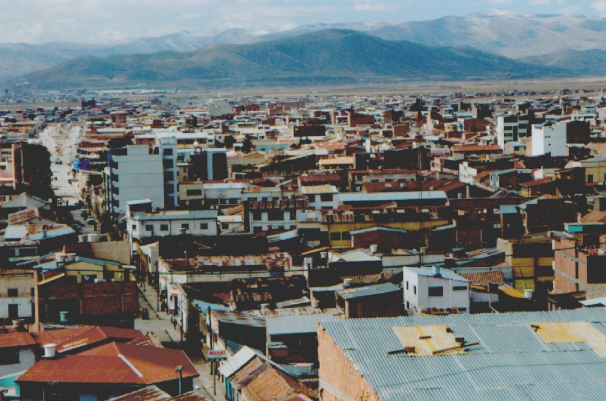 City of Oruro, Bolivia